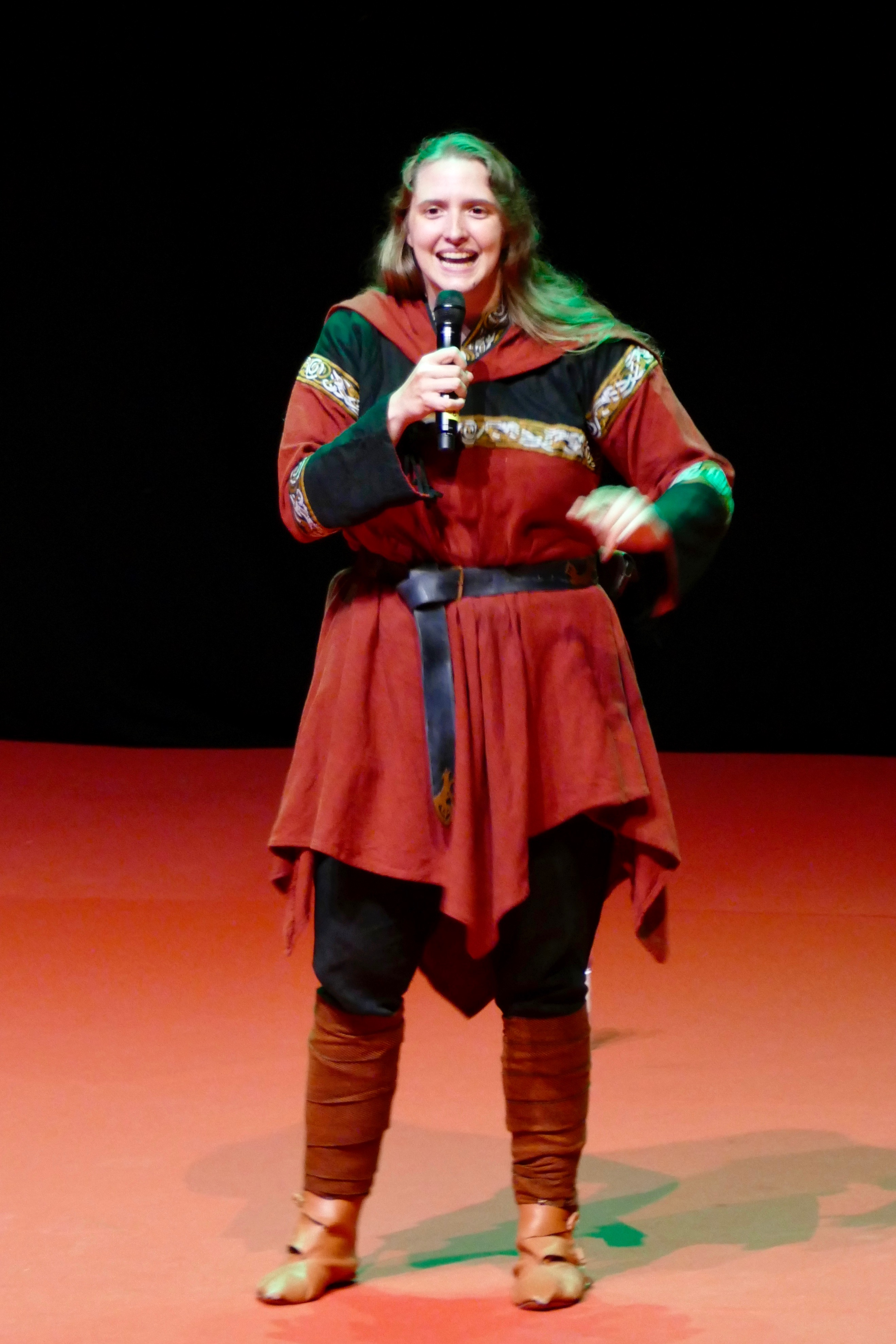 American author, musician and historian Ada Palmer performing with the musical group Sassafrass at the 75th Worldcon in Helsinki, Finland, in August 2017.